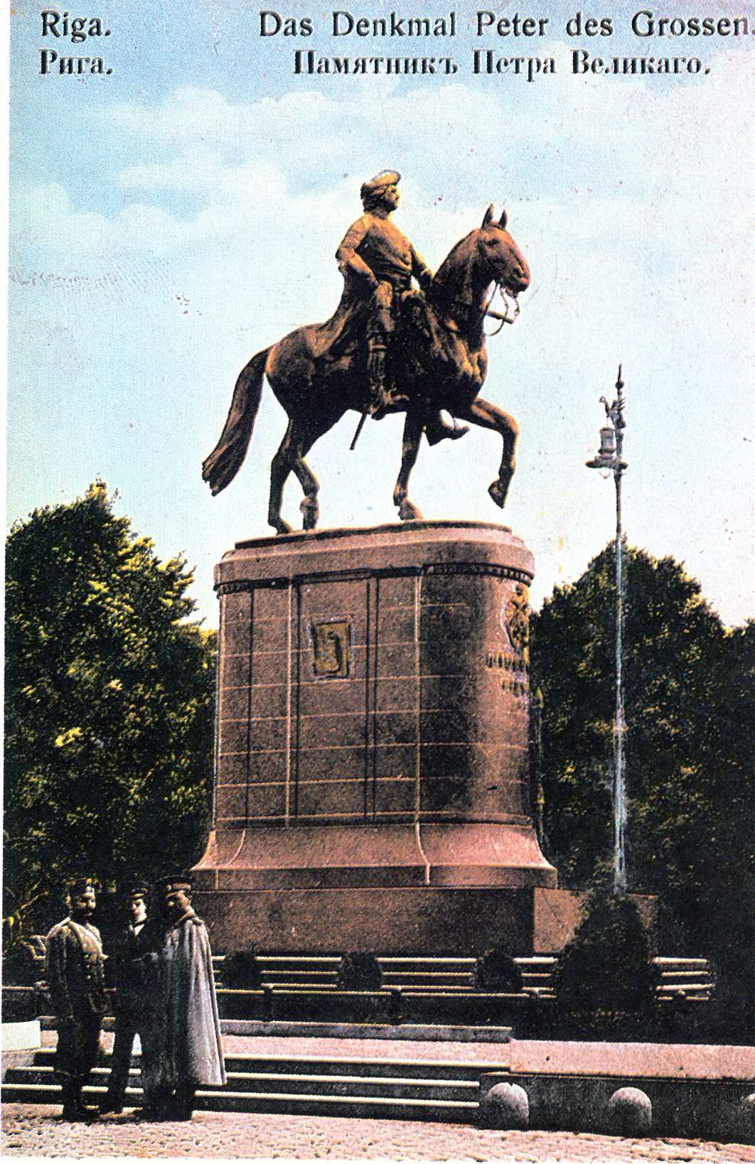 Riga. Monument Peter I. Russian Empire postcard. 1910s.